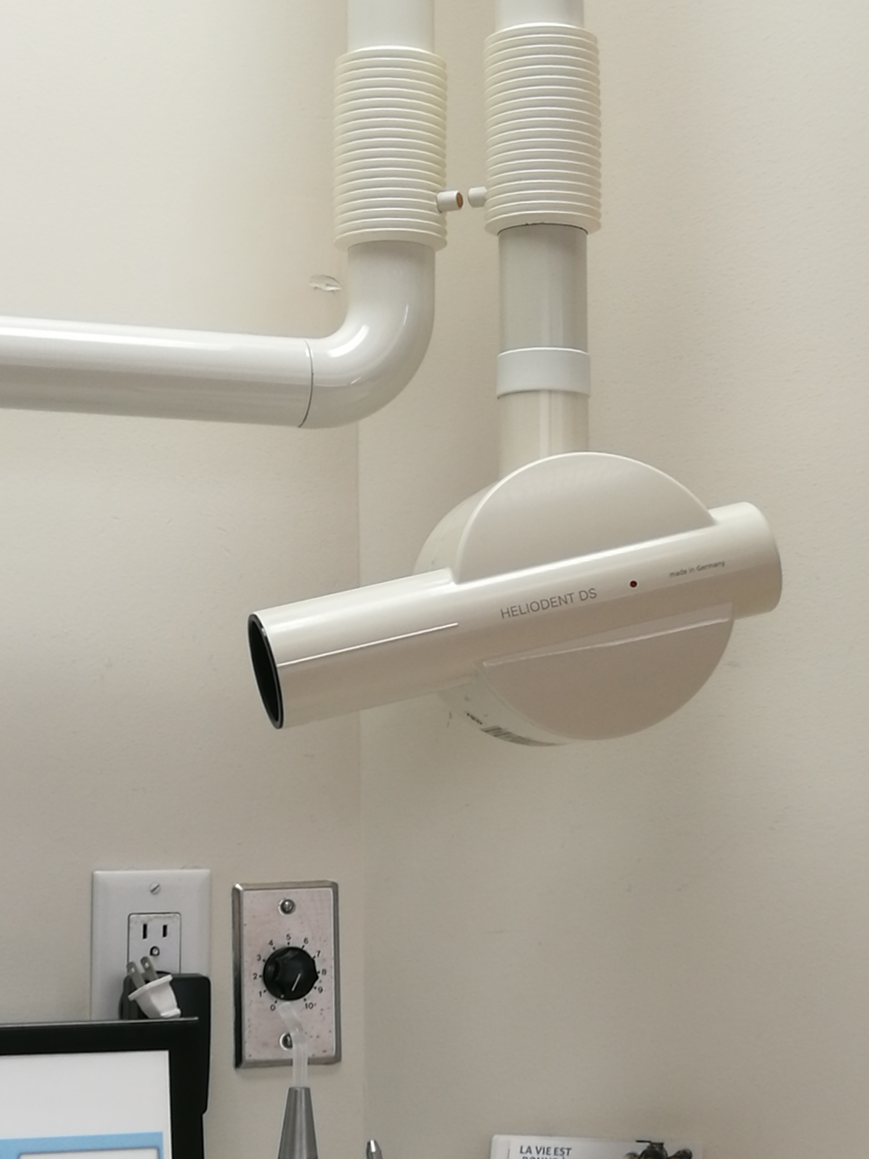 Dental x-ray unit installed in a dental office (Siemens Heliodent DS)